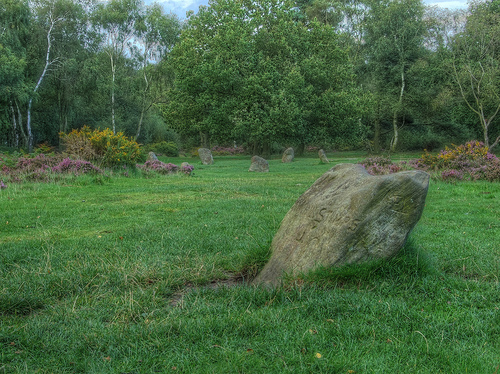 A view of the Nine Ladies at Stanton Moor with the King Stone in the foreground.